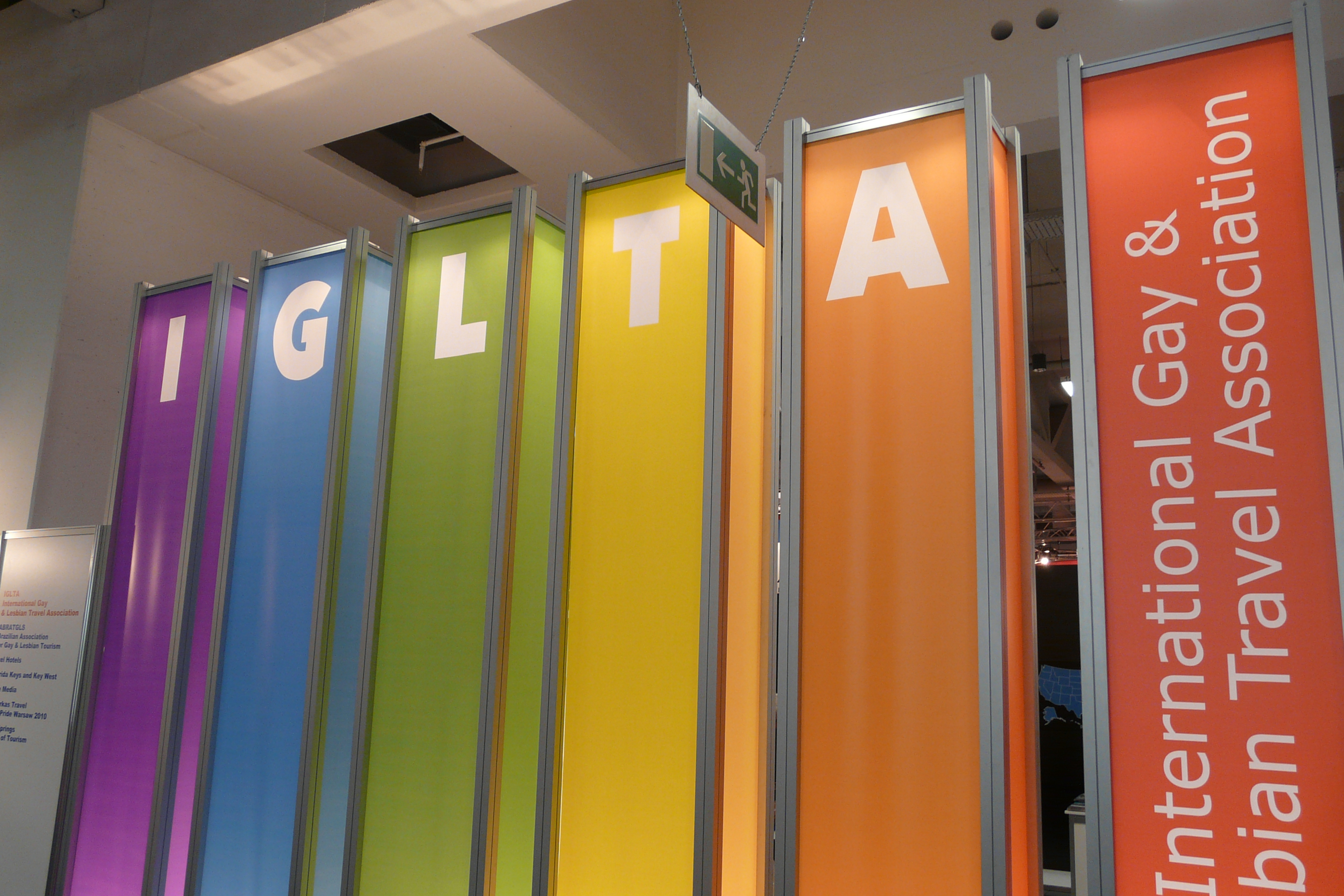 IGLTA on the ITB-Fair 2010